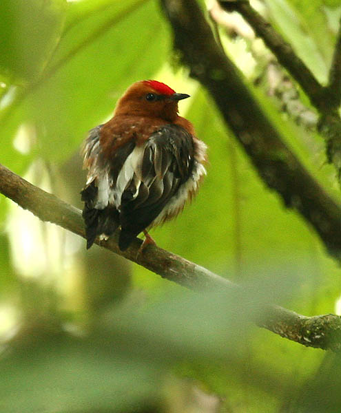 Club-winged Manakin (Machaeropterus deliciosus). A male at Milpe Bird Sanctuary, NW Ecuador.